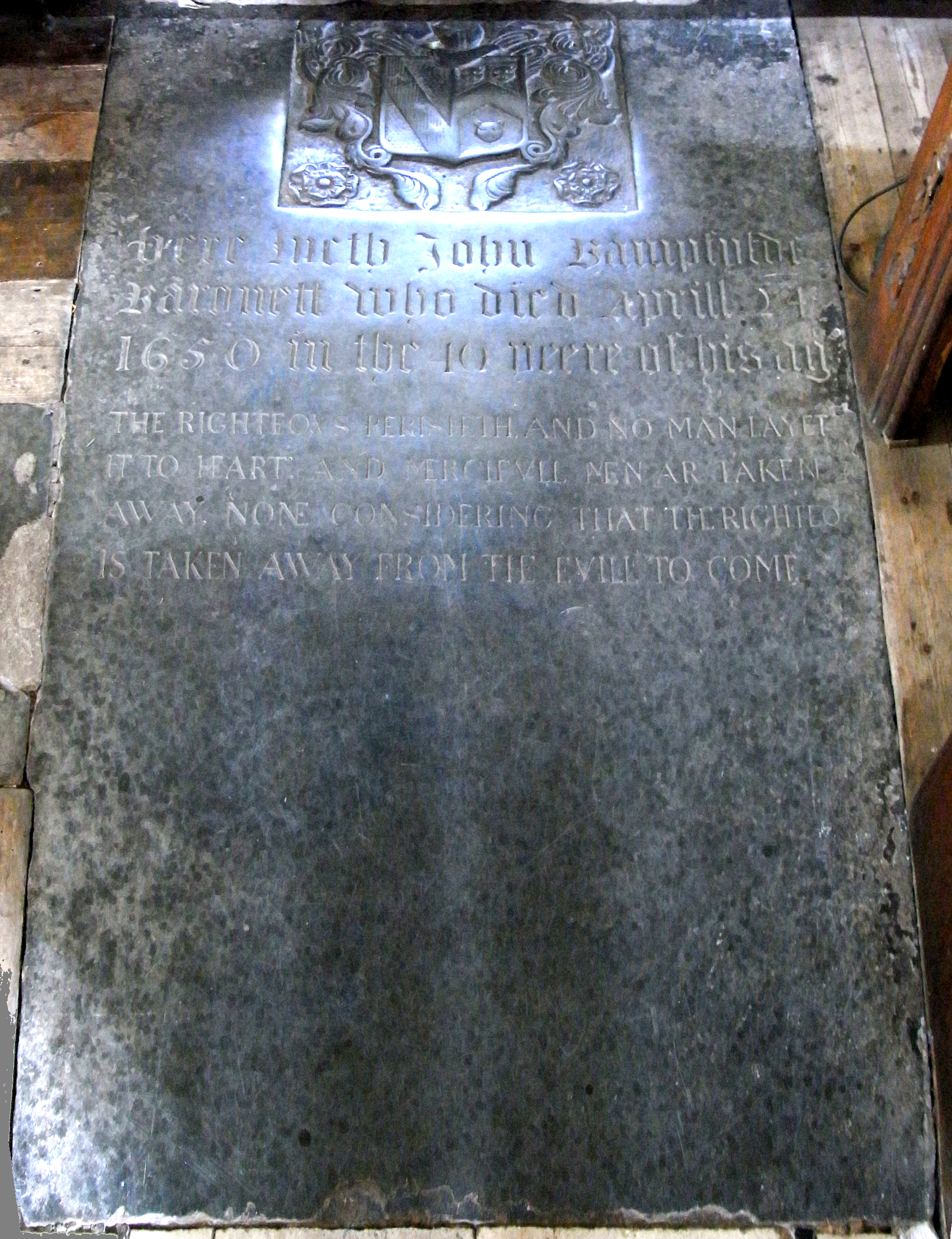 Ledger stone in nave of Poltimore Church, Devon, of Sir John Bampfylde, 1st Baronet (c.1610-1650) of Poltimore and North Molton and Tamerton Foliot, all in Devon. Inscribed: "Here lyeth John Bampfylde Baronett who died Aprill 24 1650 in the 40 yeere of his age. The righteous perisheth and no man layeth it to heart and mercifull men ar taken away none considering that the righteous is taken away from the evill to come". Above are shown the arms of Bampfylde (Or, on a bend gules three mullets argent) impaling Copleston (Argent, a chevron engrailed gules between three lion's faces azure), representing his marriage to Gertrude Coplestone (d.1658), a daughter of Amias Coplestone (1582-1621) of Copleston in the parish of Colebrooke and of Warleigh House in the parish of Tamerton Foliot, both in Devon.